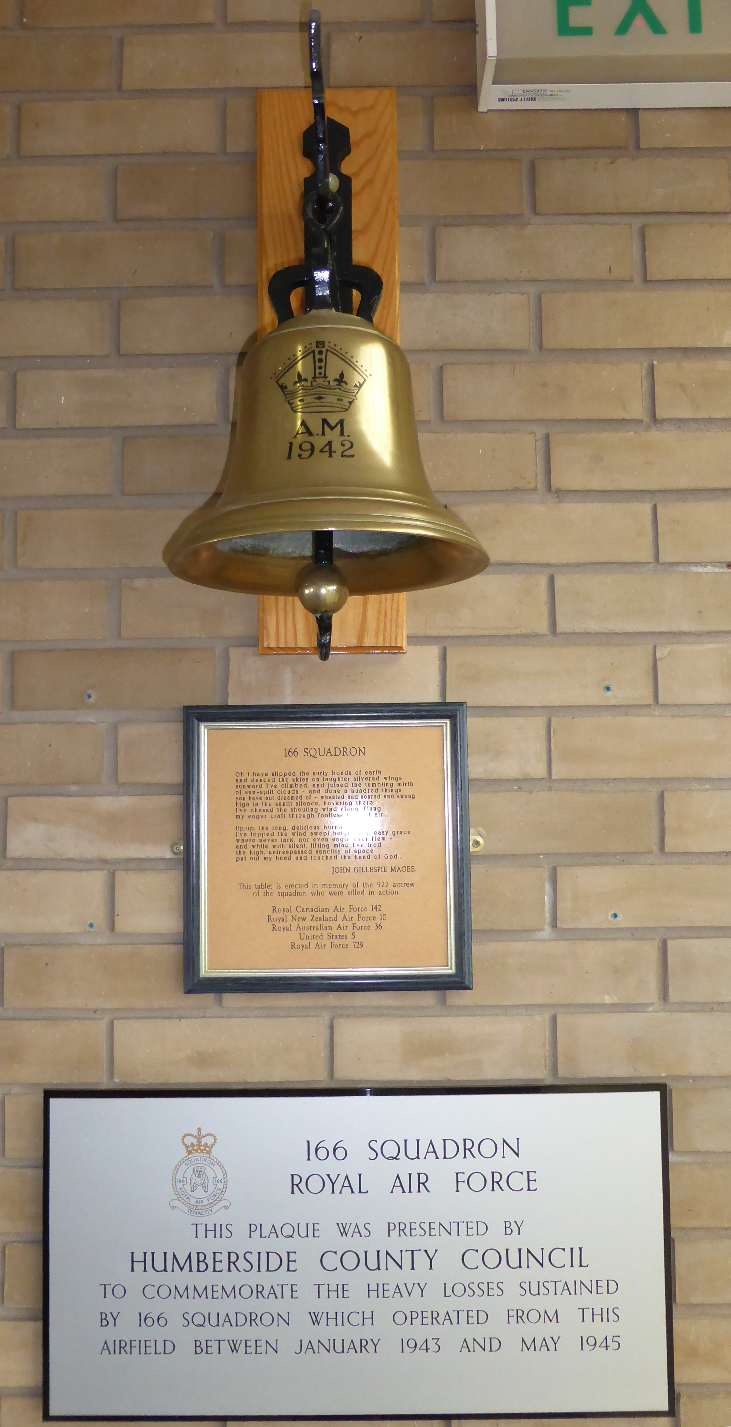 A war memorial